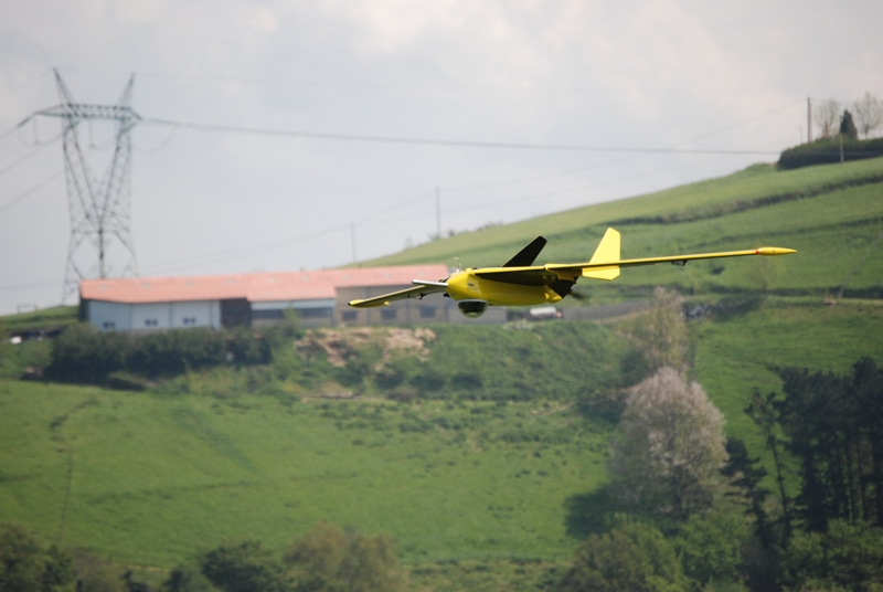 Aerovision Fulmar UAV during a recent flight